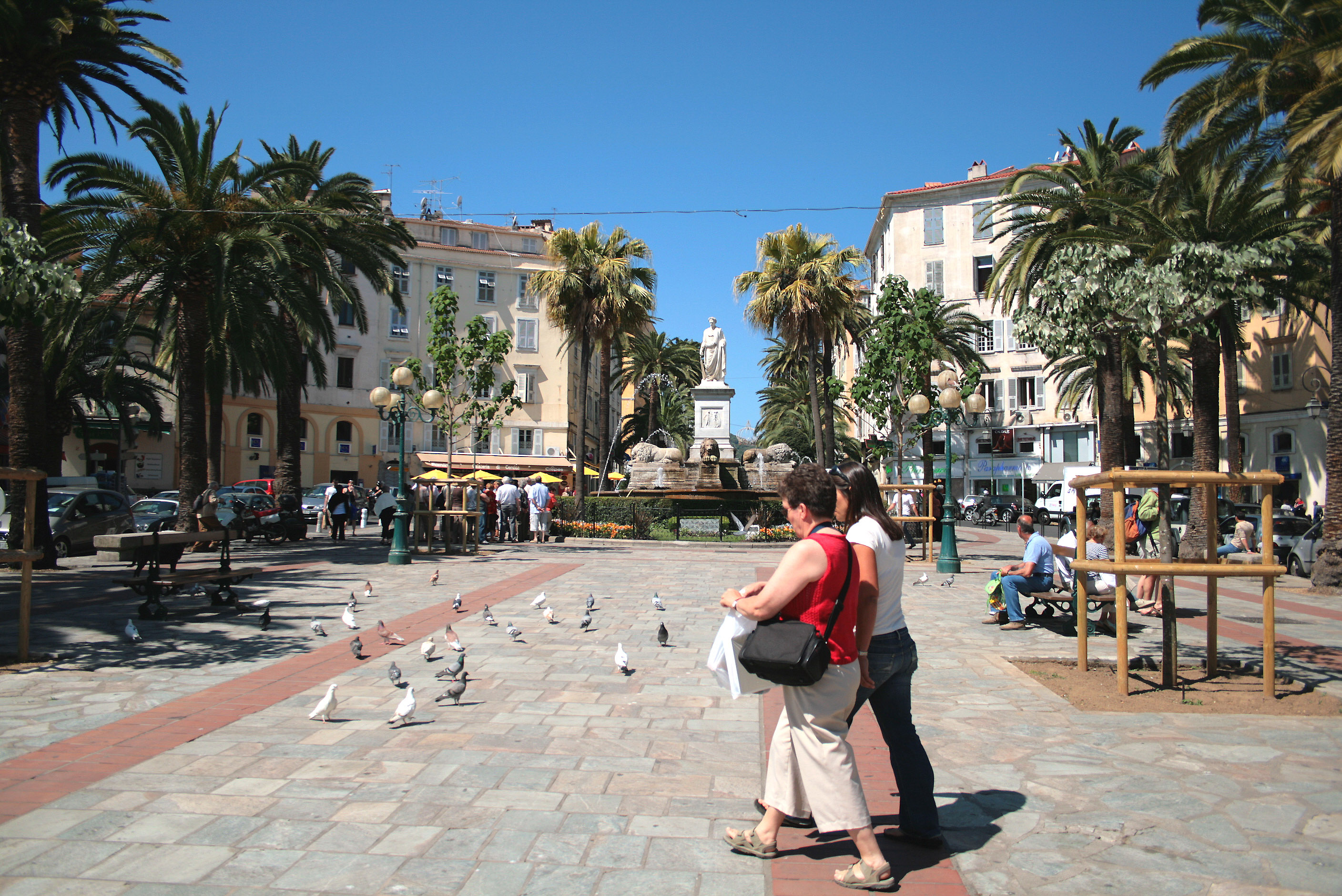 Ajaccio France, la place du Maréchal-Joffre (ou des Palmiers) et sa statue de marbre blanc de Napoléon Bonaparte Premier consul (œuvre de Maglioli).